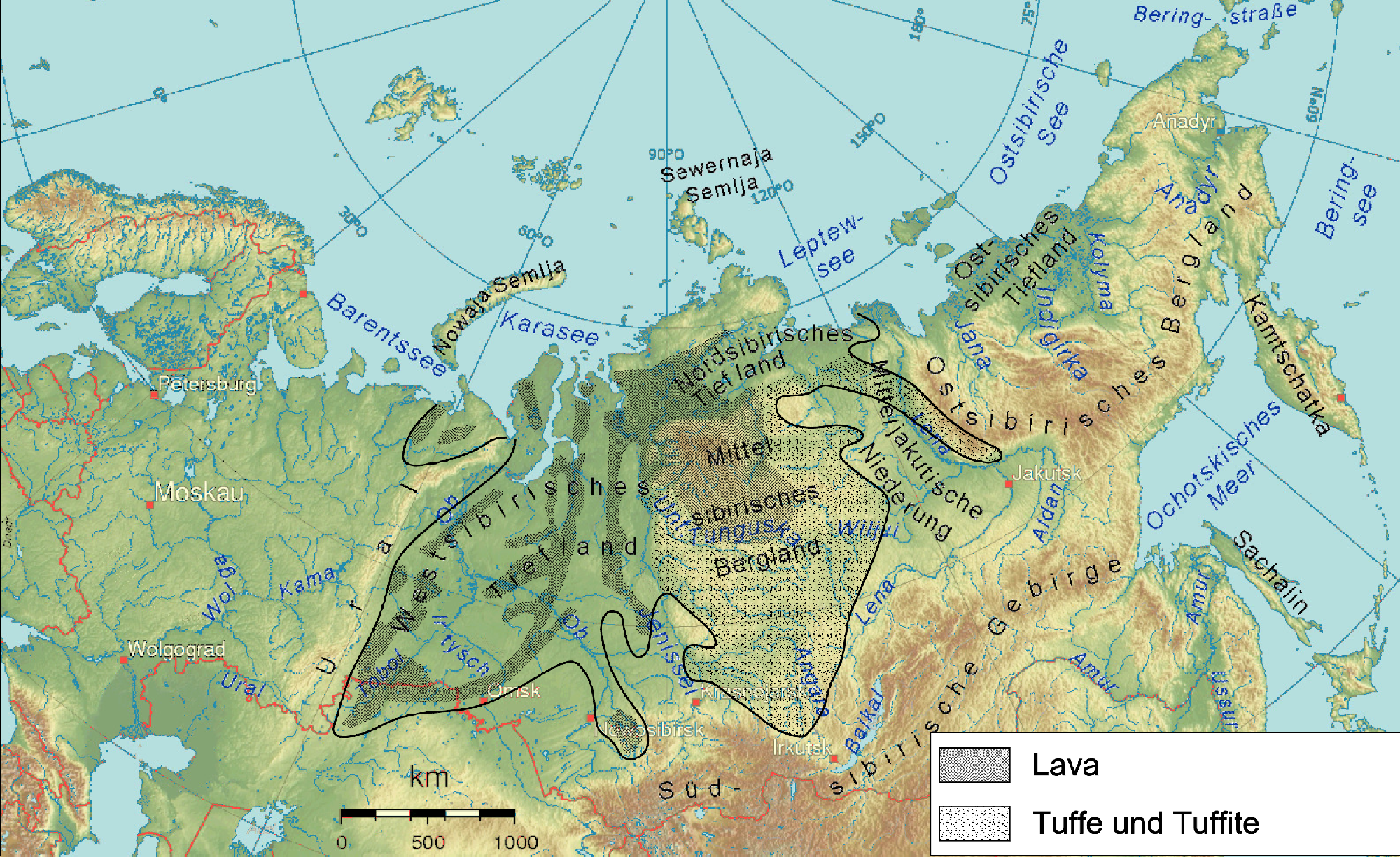 Physical map of Siberia with extent of Siberian traps according to